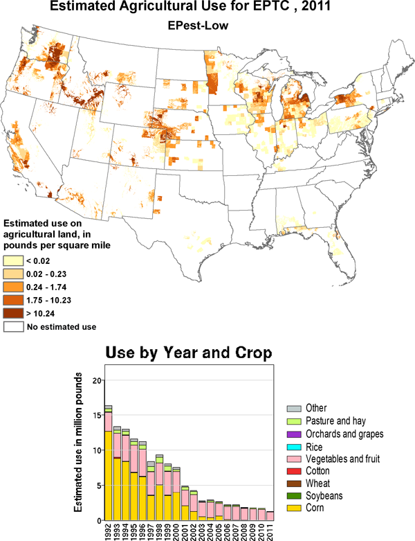 EPTC map of use, USA, 2011 (estimated)